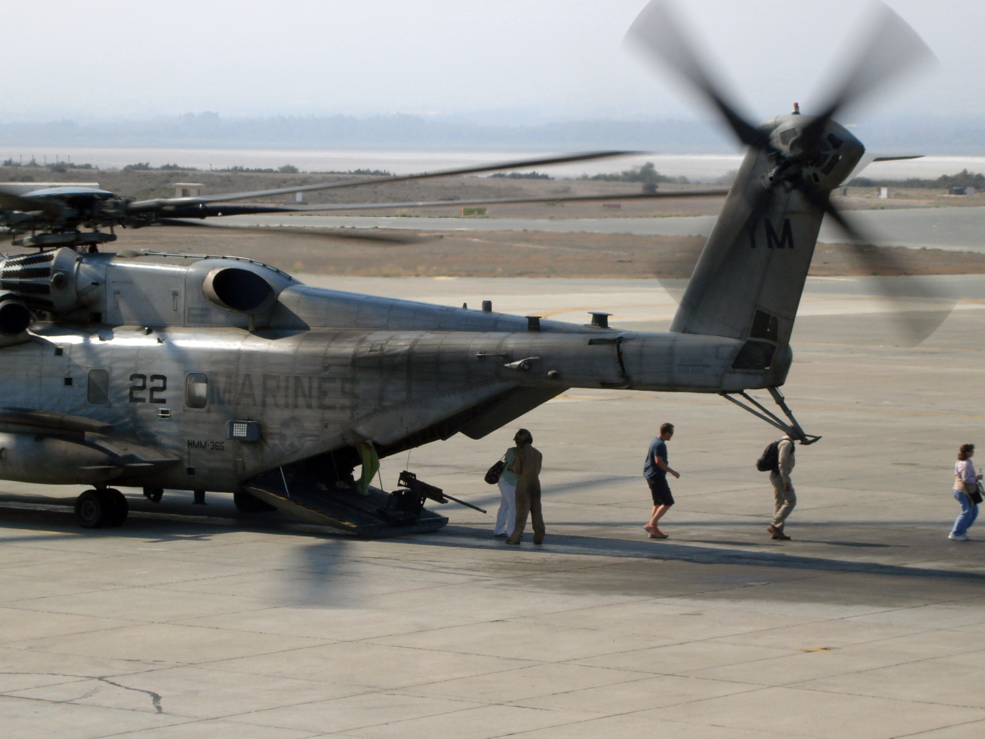 United States citizens exit a United States Marine Corps CH-53 helicopter in Cyprus following their transportation from the U.S. Embassy in Beirut, Lebanon. At the request of the U.S. Ambassador to Lebanon and at the direction of the Secretary of Defense, the United States Central Command and U.S. Marines are assisting with the authorized departure of U.S. citizens from Lebanon.